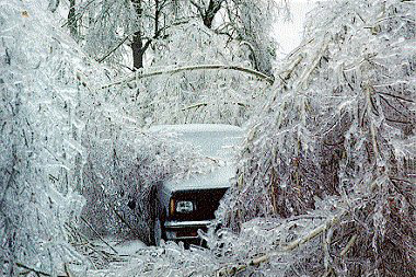 Effects of an ice storm